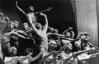 BalletsRusses